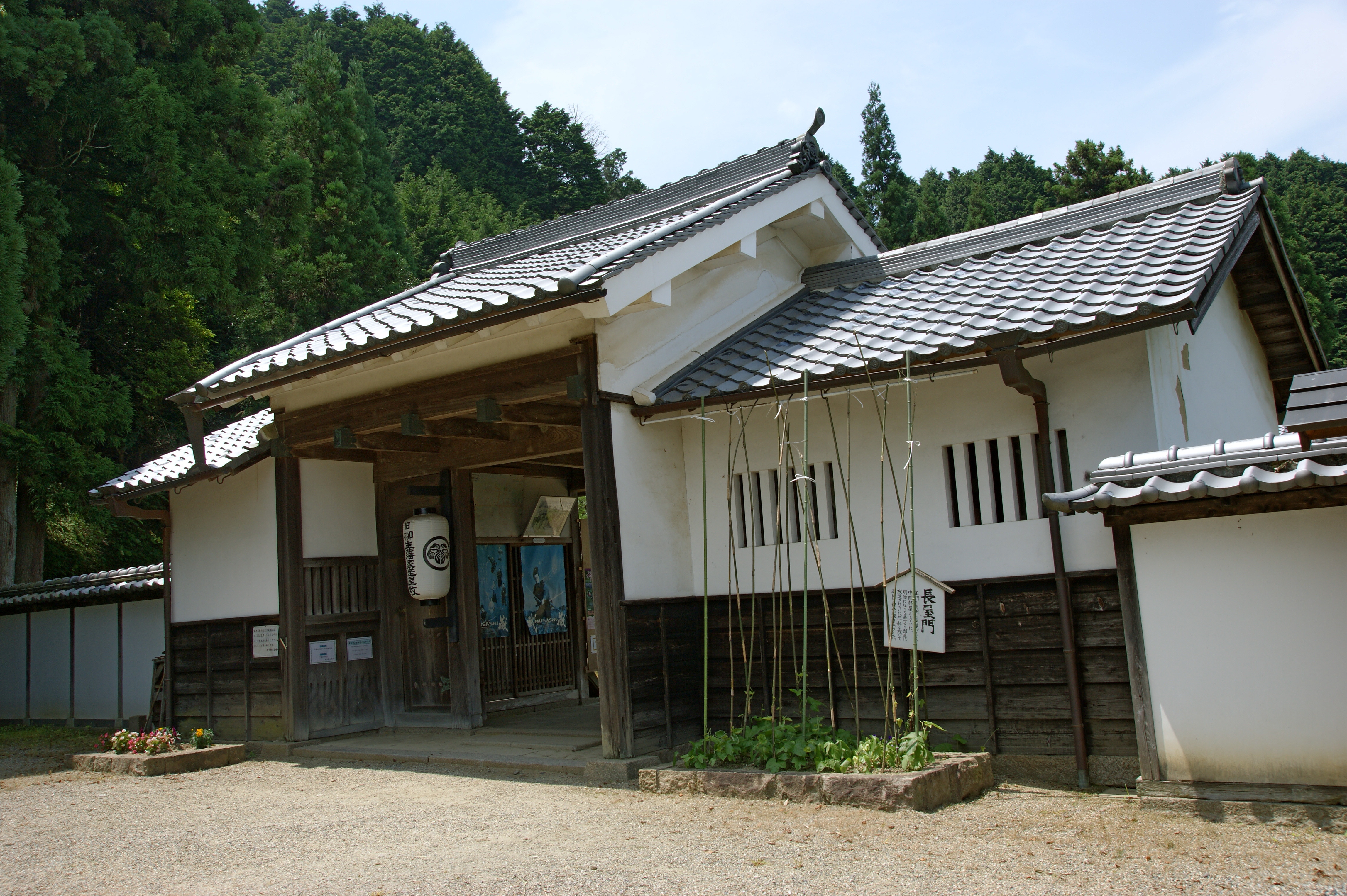 Kyu Yagyuhan karoyashiki in Nara, Nara prefecture, Japan